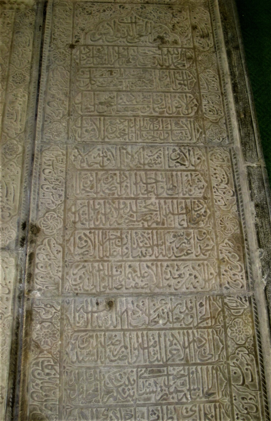 Gravestone of Muhammad Rahim II Sheikholeslam (? -1833/06/27) – (? -1249 A.H.) Location of Grave-site: Agha Hossein Khansari mausoleum, Takht-e Foulad Cemetery, Isfahan